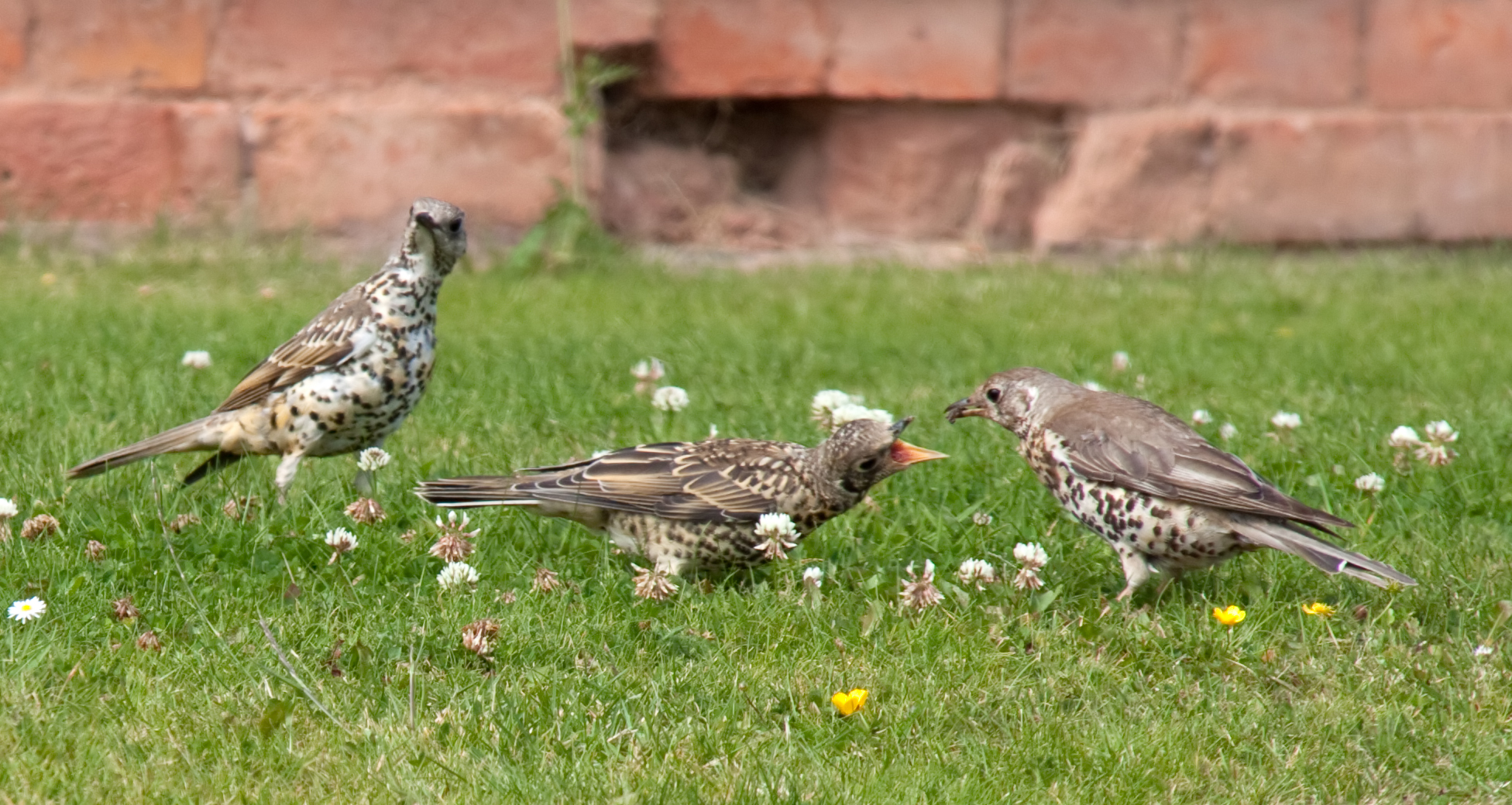 A Mistle Thrush family in Longbridge, Birmingham, England.